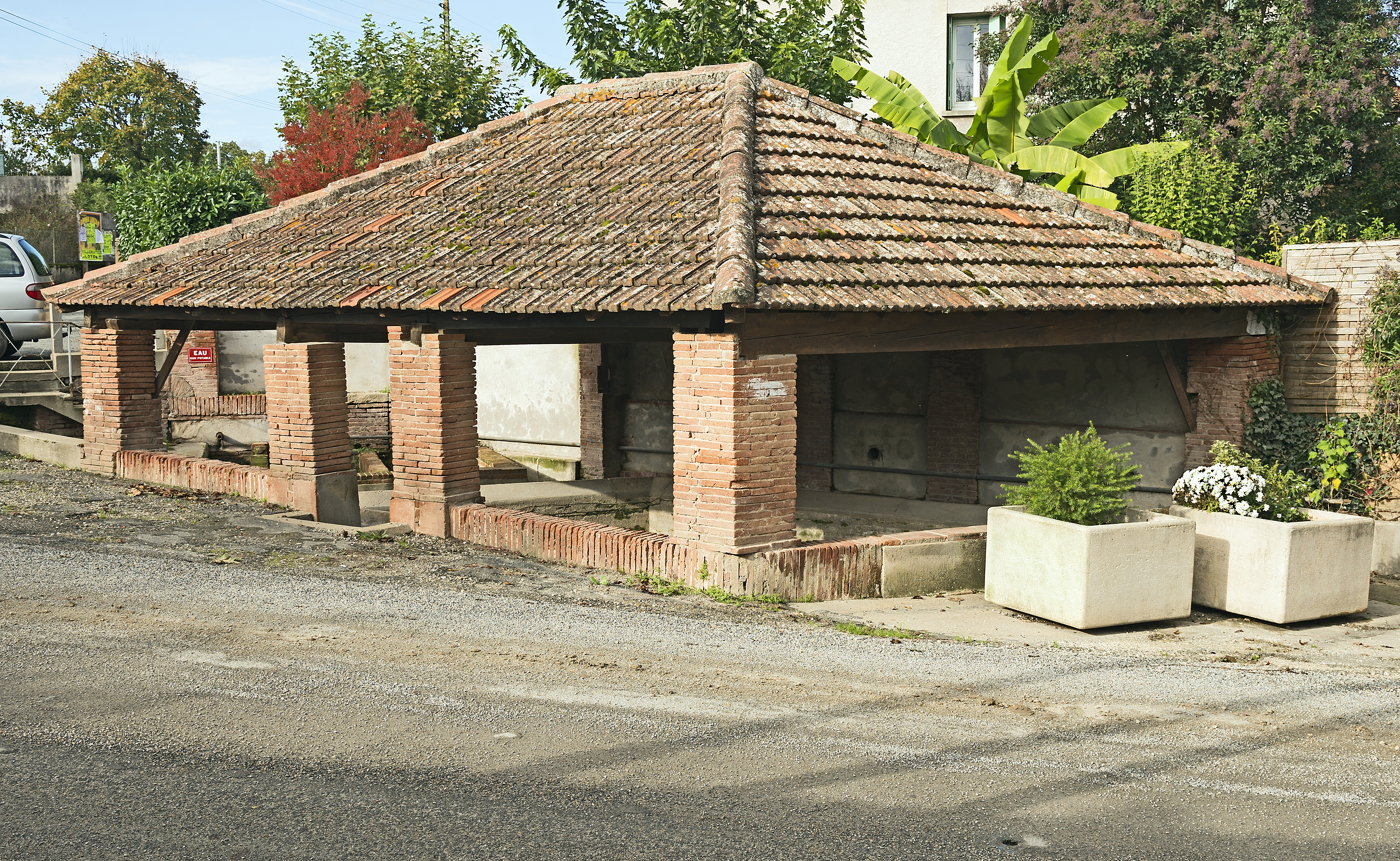 Villemur-sur-Tarn. Le Terme, the laundry of the nineteenth.